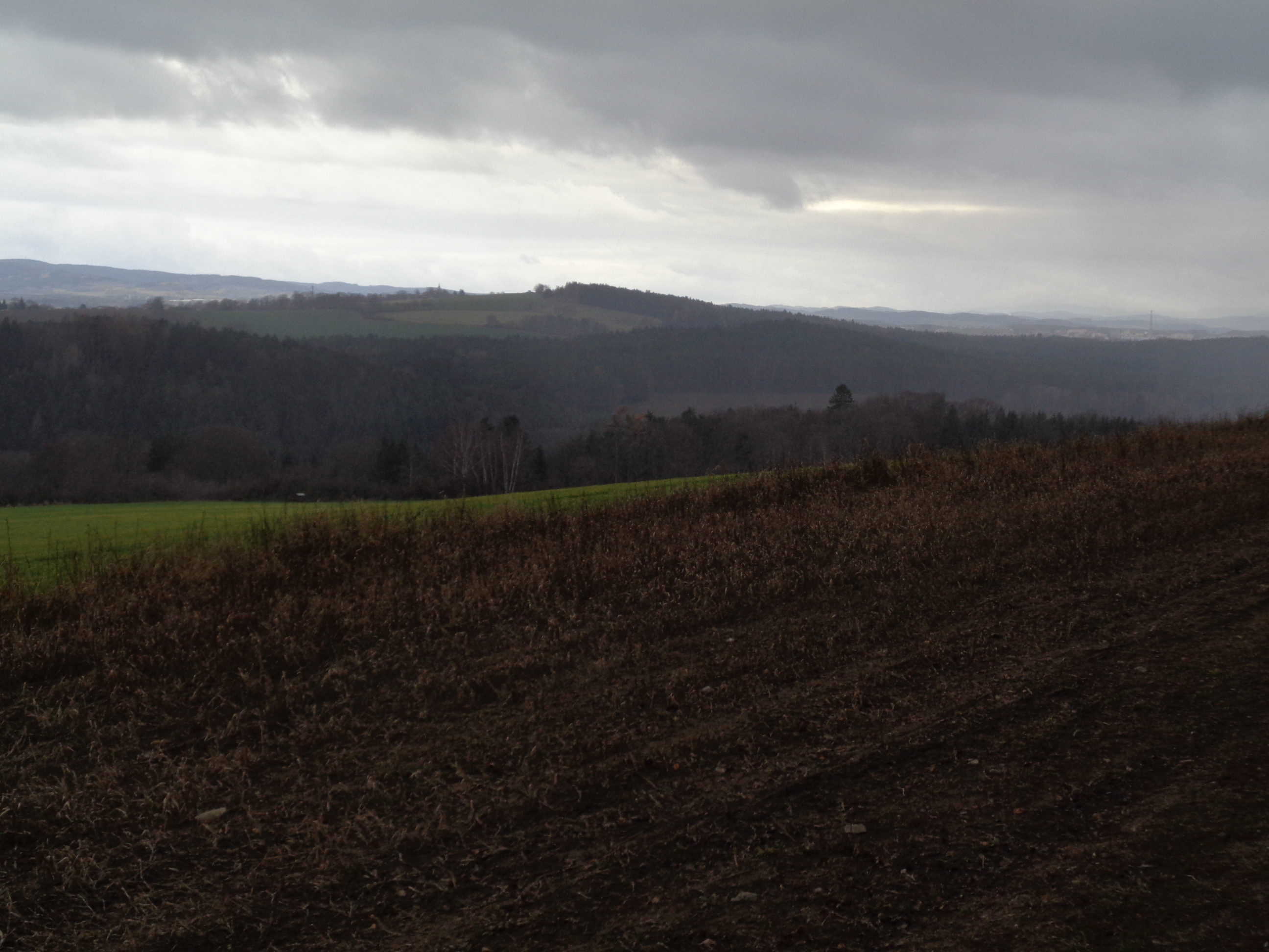 Stráž, Svatý Jan nad Malší in České Budějovice District